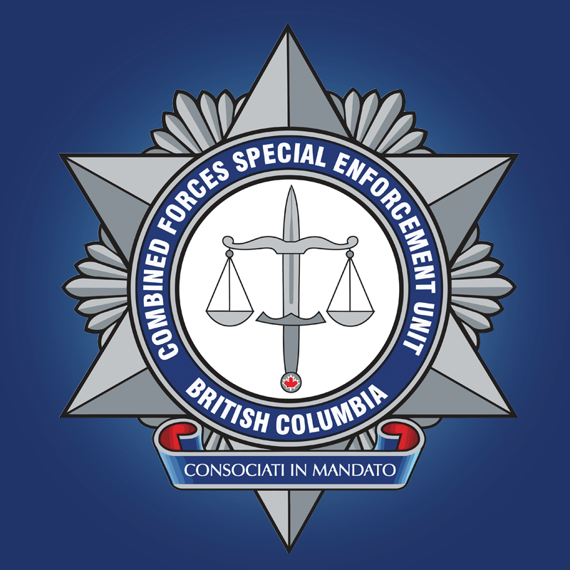 The Combined Forces Special Enforcement Unit - British Columbia is the province’s anti-gang agency. It is an integrated joint forces operation that develops and draws highly-specialized officers from federal, provincial and municipal agencies.